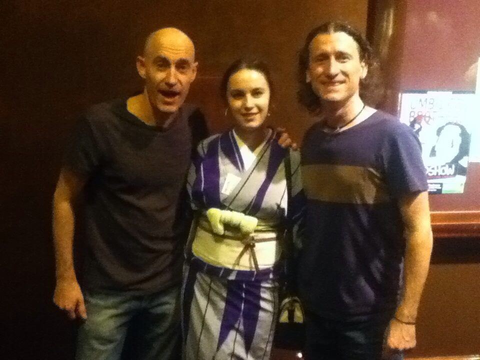 The Umbilical Brothers in 2014: (L-R) Shane Dundas, an unknown fan, and David Collins